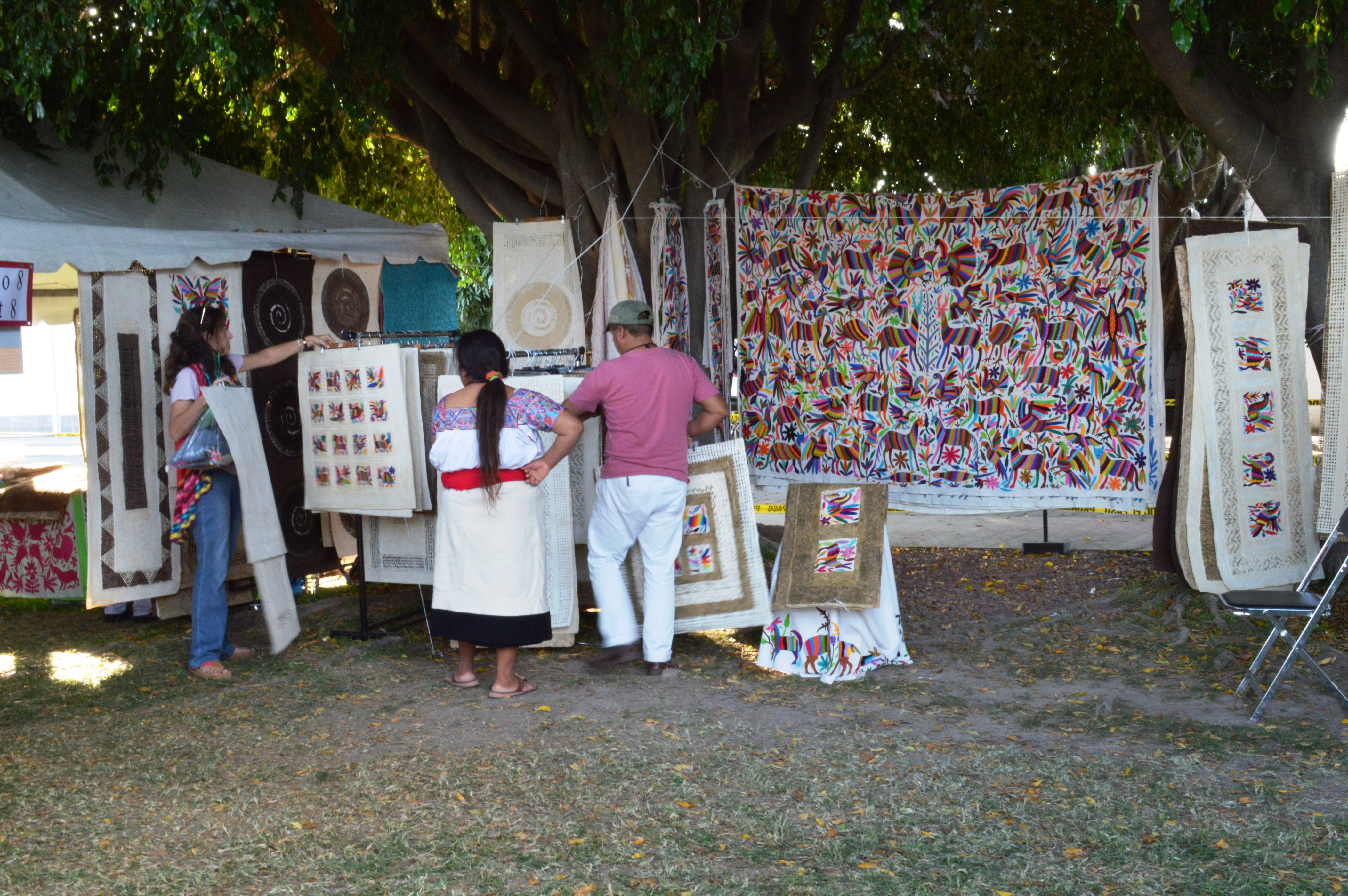 Amate paper and embroidery from Hidalgo at the 2015 Feria de los Maestros del Arte in Chapala, Jalisco